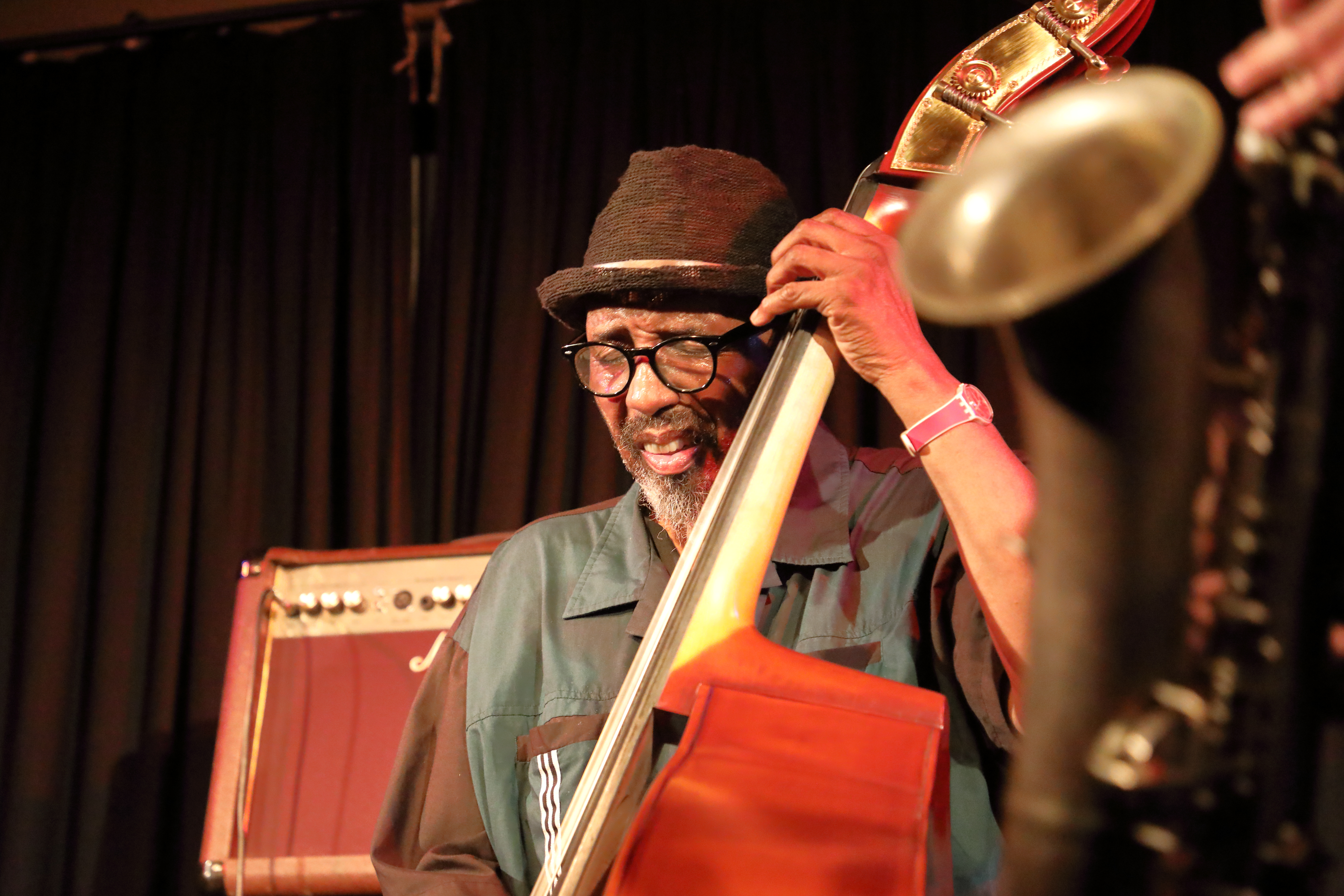 Jazz bassist William Parker from the US with Hamid Drake (dr) and John Dikeman (sax) at Club W71, 2019.